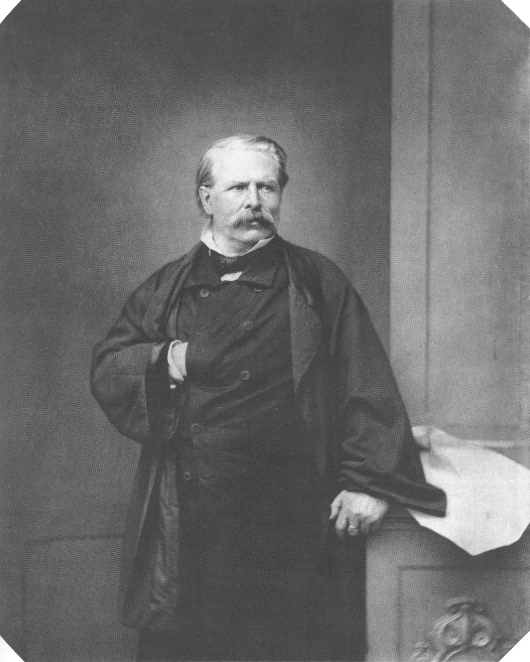 Moritz von Schwind (1804–1871) Alternative names Von Schwind; Moritz Ludwig von SchwindDescriptionAustrian painter and university teacherDate of birth/death 21 January 1804 8 February 1871Location of birth/death Vienna MunichWork location Munich, Karlsruhe, Frankfurt am Main, Vienna, Wartburg (Eisenach)Authority control : Q551901 VIAF: 69054934 ISNI: 0000 0001 0912 5393 ULAN: 500024154 LCCN: n84093601 MusicBrainz: 0f7865f6-54f4-45c7-95ac-d2244bdb8998 WorldCat creator QS:P170,Q551901